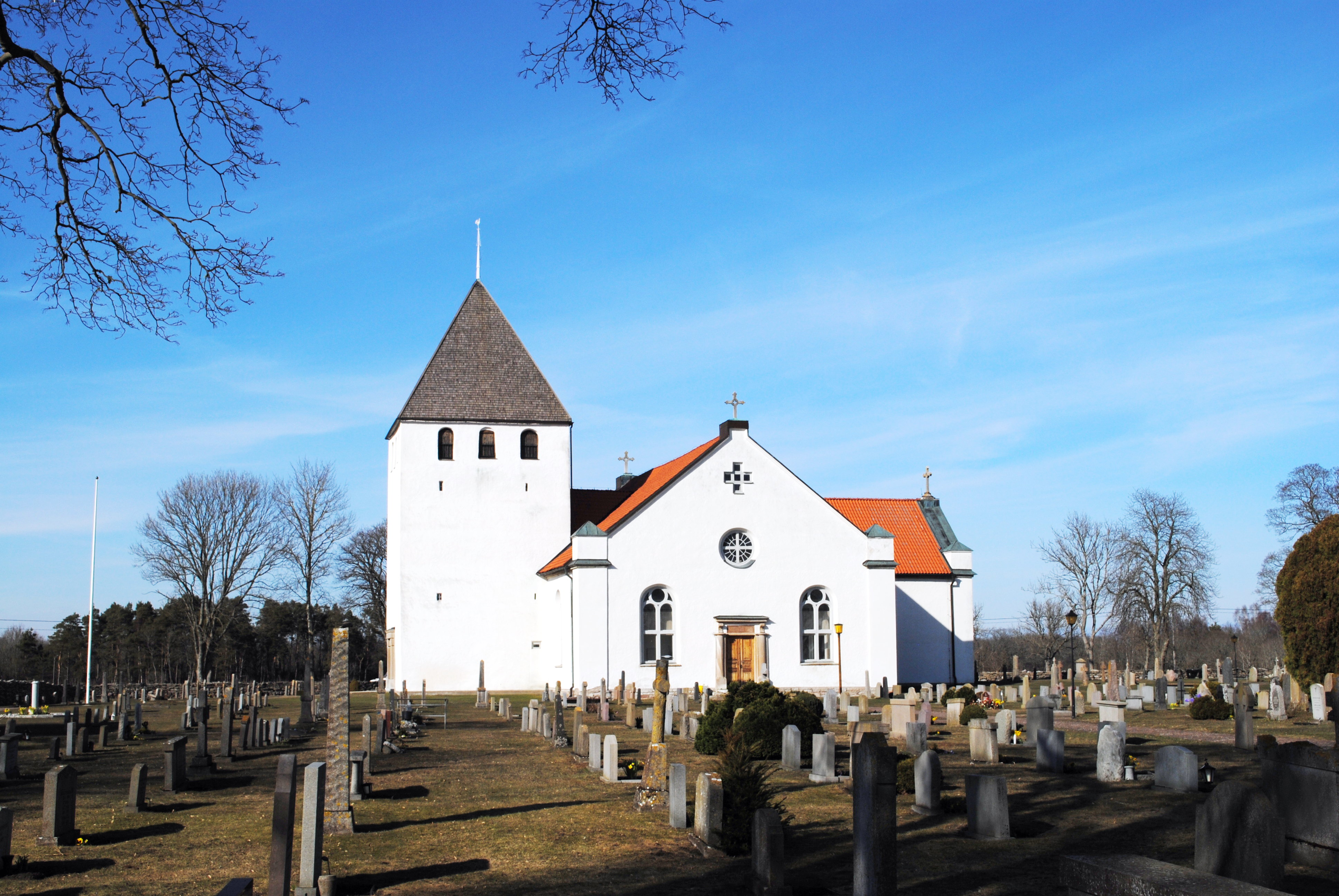 Persnäs parish church, Öland, Sweden